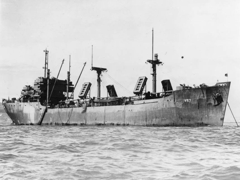 USS Pontotoc (AVS-7) probably photographed at anchor in San Francisco Bay, CA.